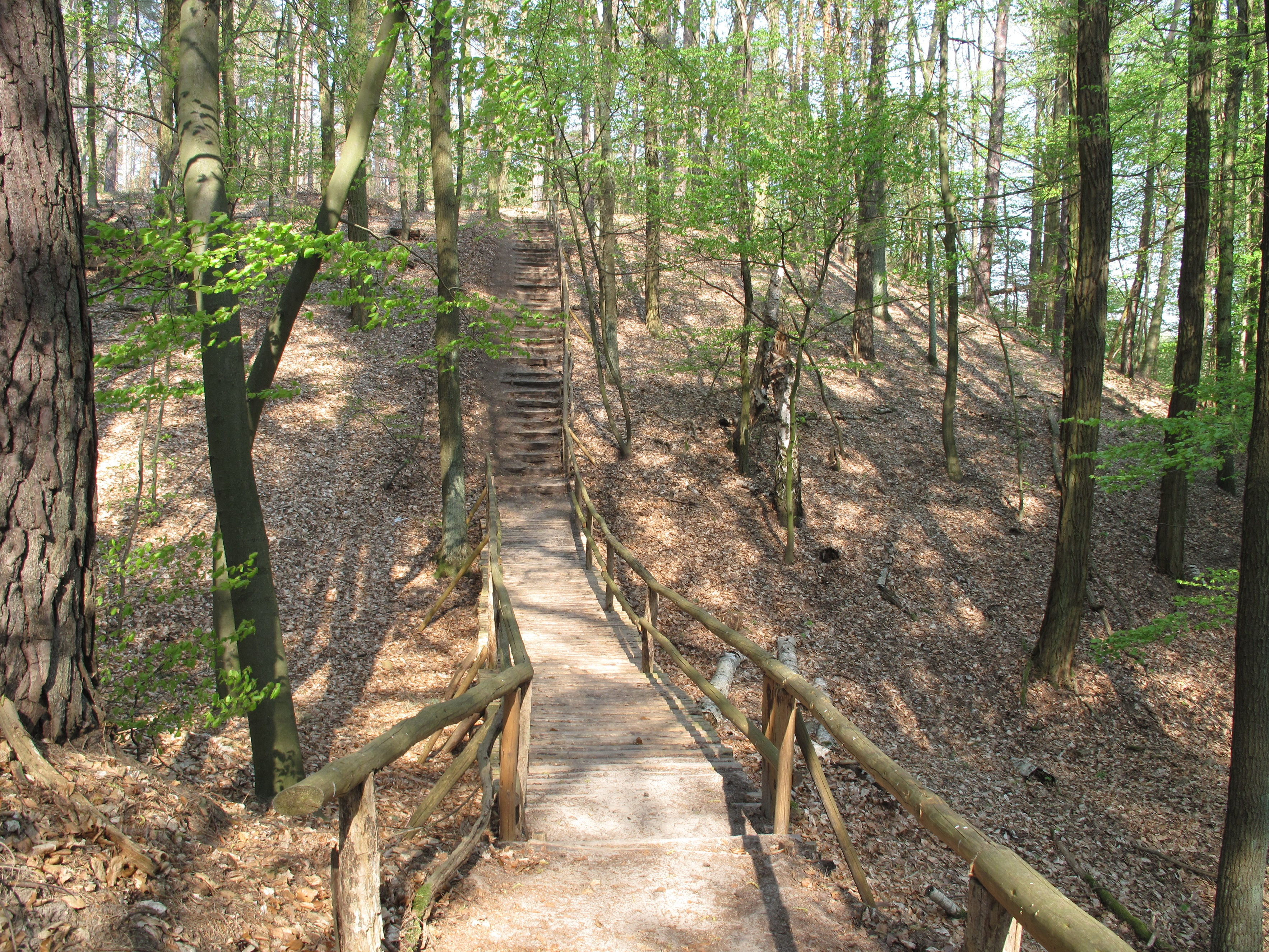 The Panoramaweg is a part of the approximately 7,5 kilometres long walking path around the Schermützelsee. The Schermützelsee is a lake in Buckow, District Märkisch-Oderland, Brandenburg, Germany. The lake covers 137 hectare and is the largest water in the hill country „Märkische Schweiz“ and in the Märkische Schweiz Nature Park.